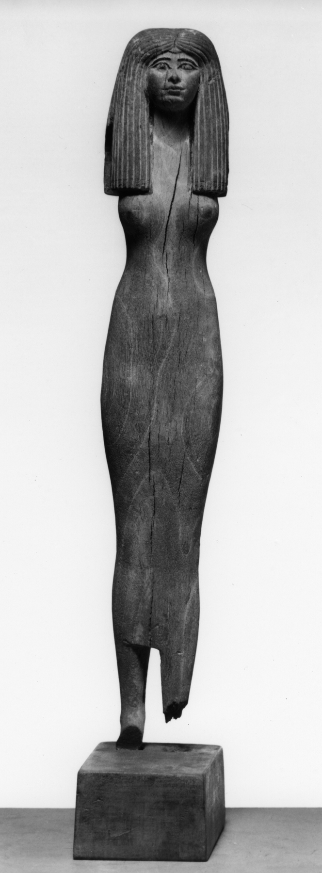 This woman wears a long wig and a close-fitting dress. Although the figure has lost its arms and feet, the high quality of the piece is still visible in the details of the face.